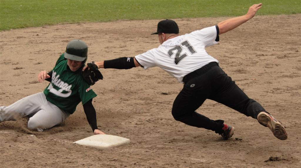 Runner is tagged out at base 3